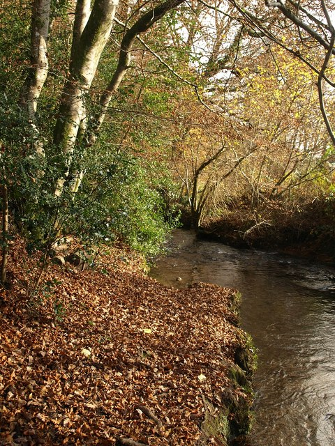 Holy Brook. Looking downstream from the same spot as 1054768.